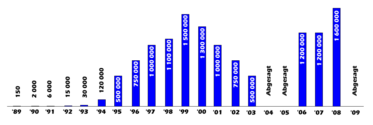 Visitors at the Love Parade 1989 - 2008